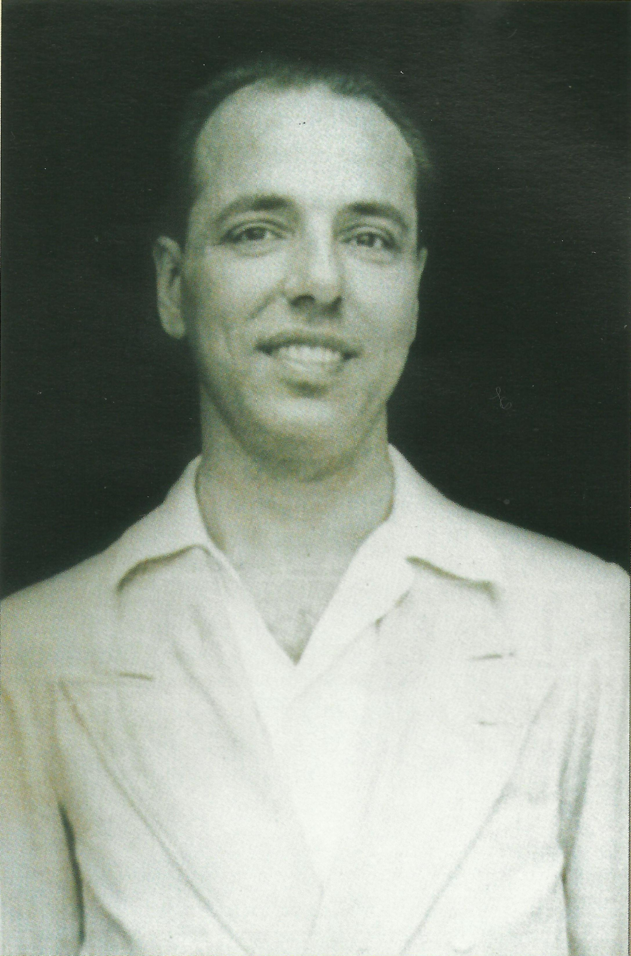 A picture of Hussein Bicar taken in early 1940s